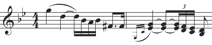 The main melody of Saint-Saëns's second piano concerto.